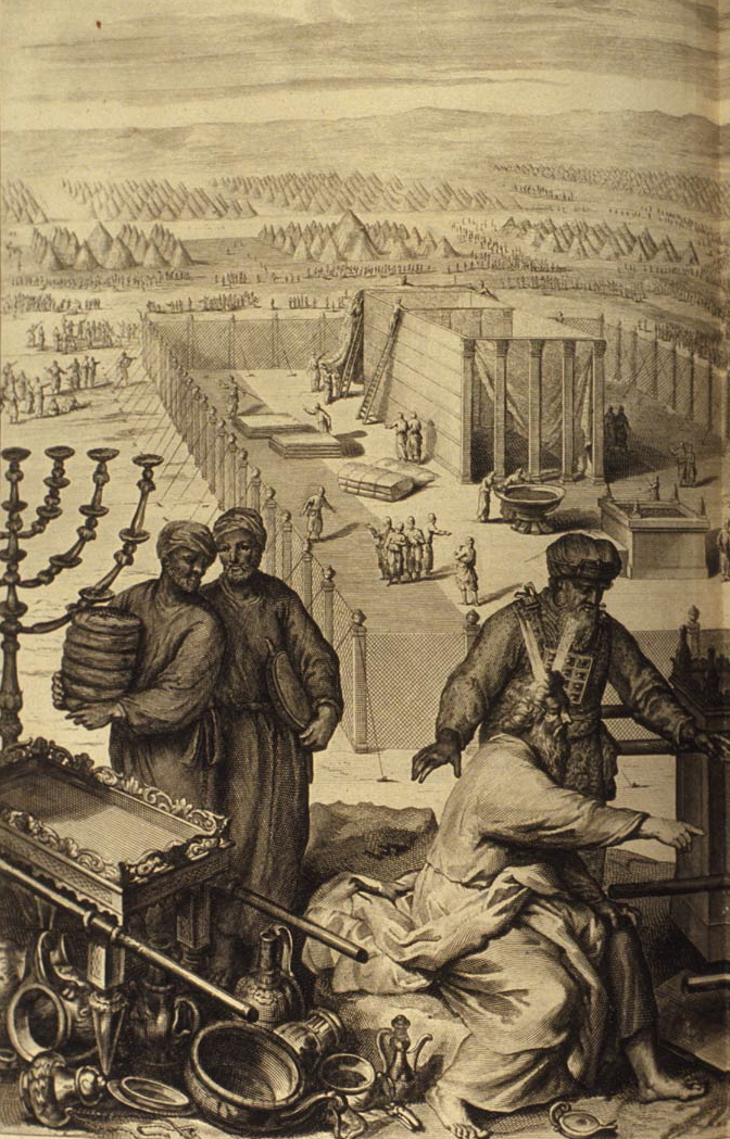 The Erection of the Tabernacle and the Sacred Vessels (left plate); as in Exodus 40:17-19: "And it came to pass in the first month in the second year, on the first day of the month, that the tabernacle was reared up. And Moses reared up the tabernacle, and fastened his sockets, and set up the boards thereof, and put in the bars thereof, and reared up his pillars. And he spread abroad the tent over the tabernacle, and put the covering of the tent above upon it; as the Lord commanded Moses."; illustration from the 1728 Figures de la Bible; illustrated by Gerard Hoet (1648–1733) and others, and published by P. de Hondt in The Hague; image courtesy Bizzell Bible Collection, University of Oklahoma Libraries